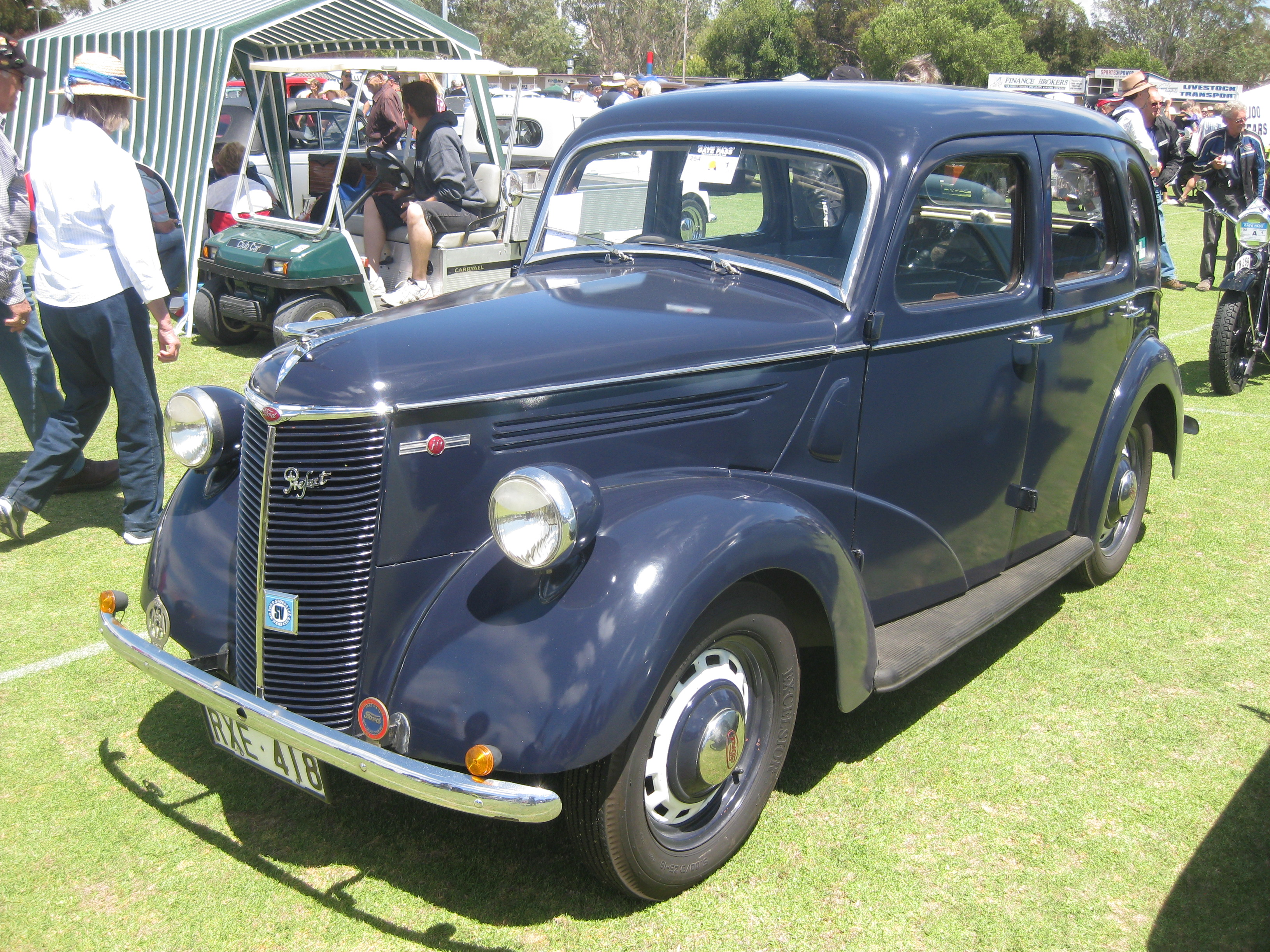 Australian Ford Prefect Sedan E03A of 1939.